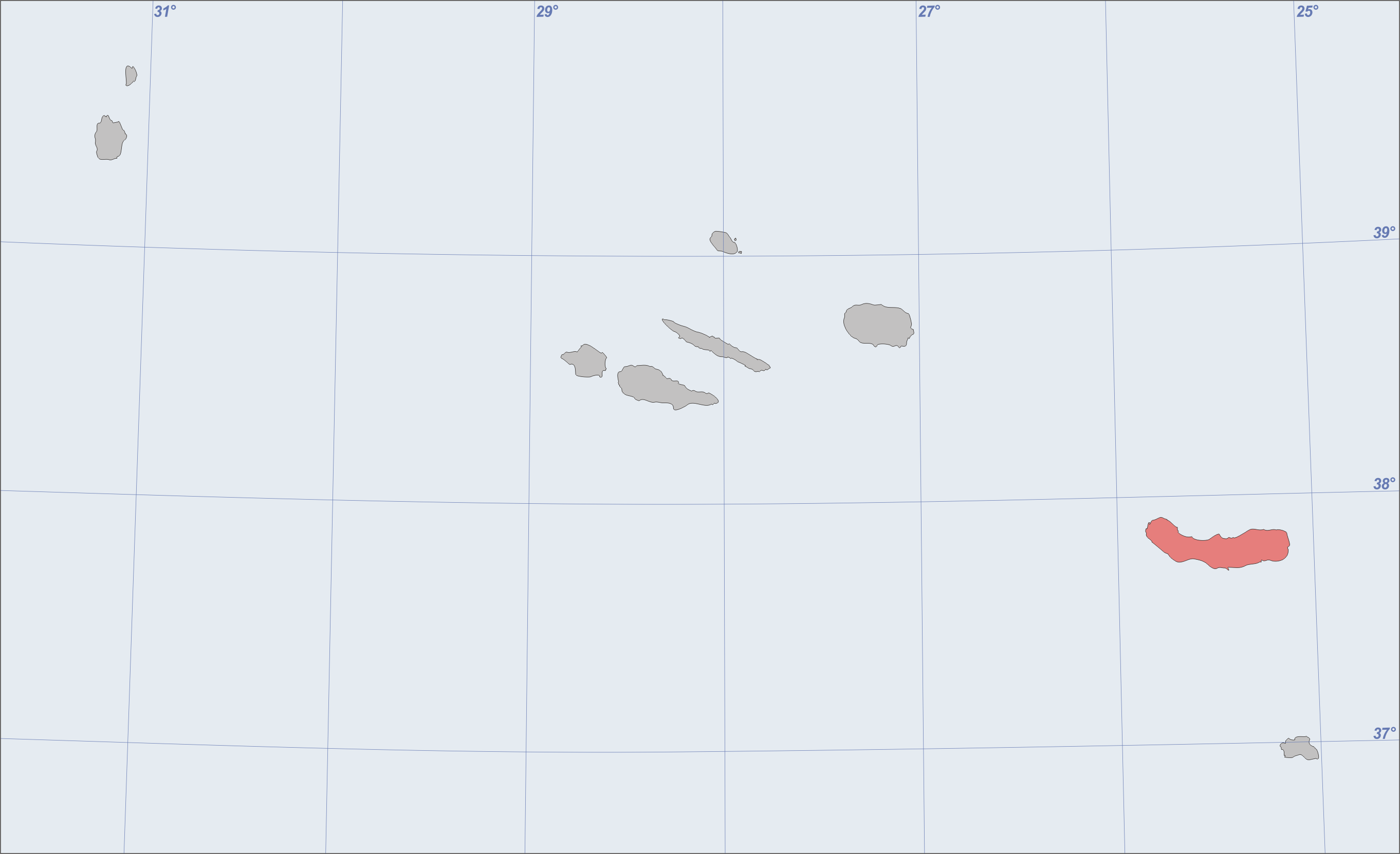 Position of Sao Miguel Island, Azores drawn by varp